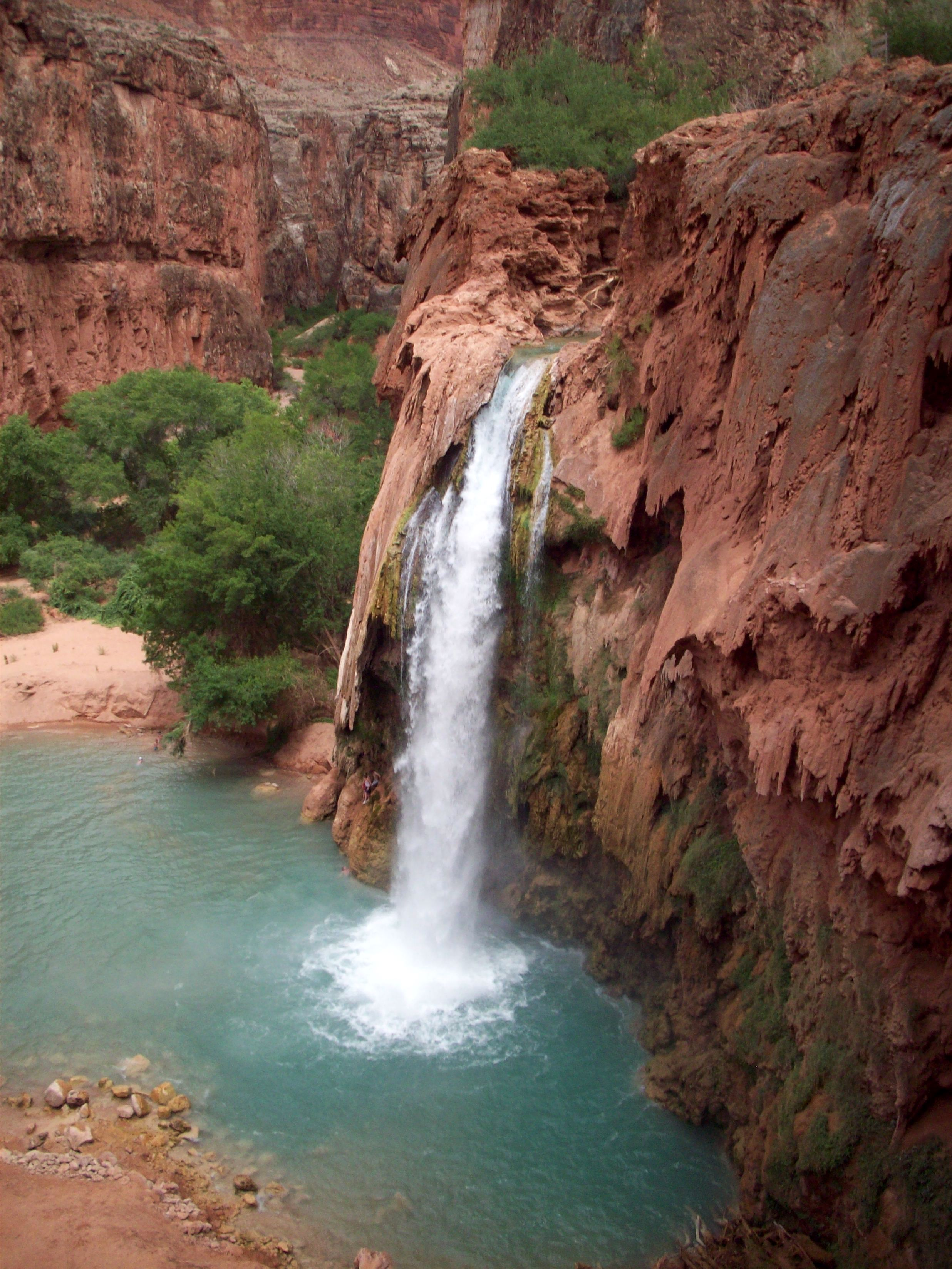 Havasu Falls after the August 2008 flood in Havasupai. The falls have shifted to the right and the pool below has been greatly changed. The natural pools have been destroyed and artificial damns have been built to recreate the pool.